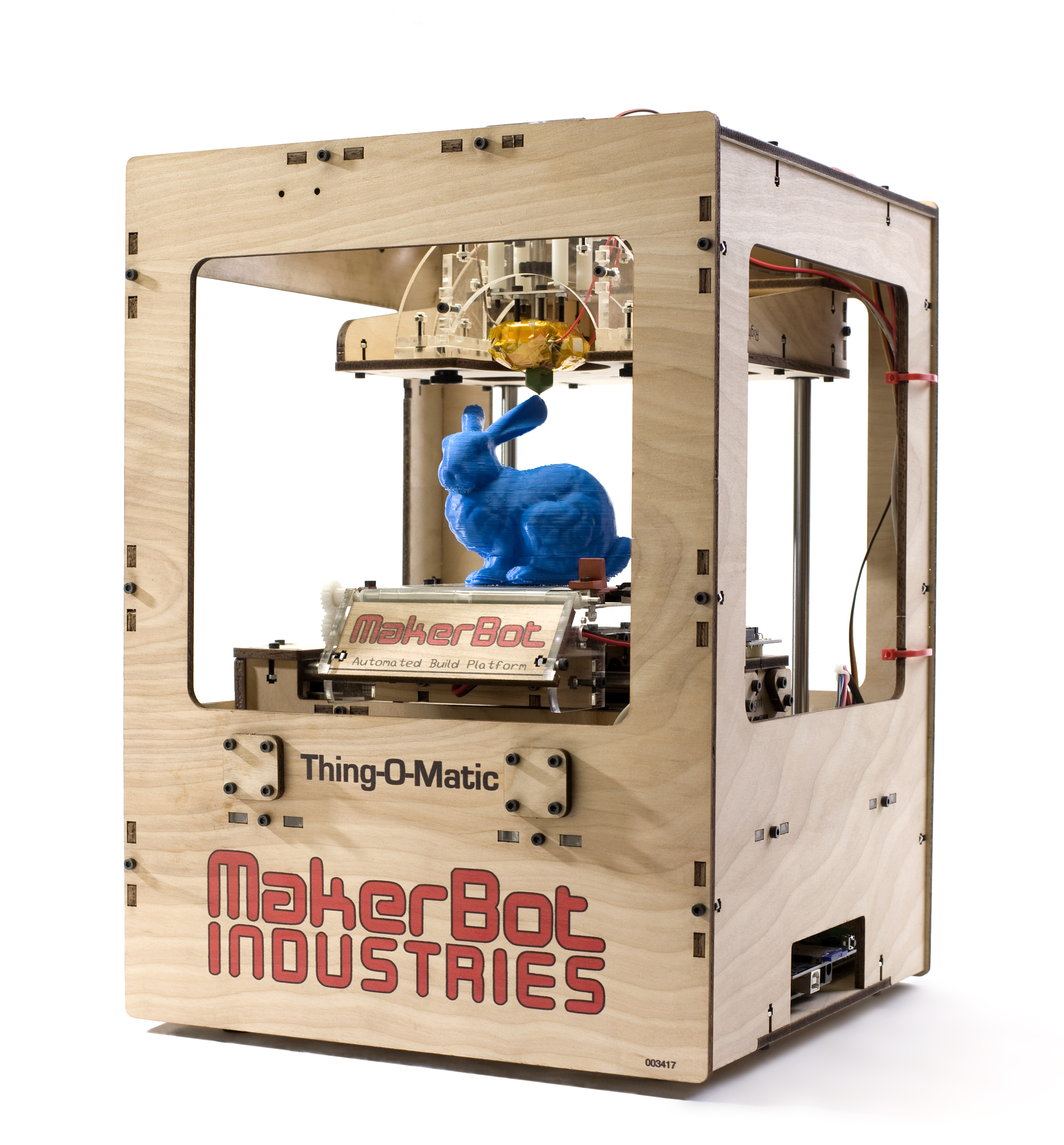 Makerbot Thing-O-Matic Assembled Printing a Blue Rabbit